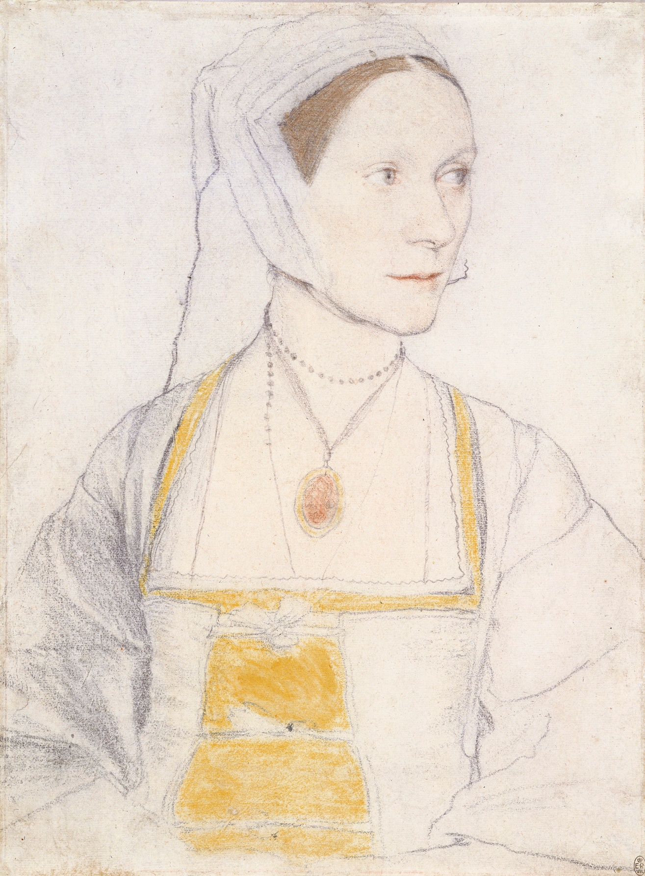 Portrait study of Cecily Heron. Black and coloured chalks on paper, 38.4 × 28.3 cm, Royal Collection, Windsor. Cecily Heron (b. 1507) was the youngest daughter of Thomas More. In 1535, her father was executed , after refusing to sign the oath to the Act of Supremacy. Her husband, Giles Heron, was hanged for treason in 1540. This drawing is one of seven fine surviving studies drawn by Holbein for his group portrait of Thomas More's family. In the family portrait, the position of Cecily's right arm is altered so that her hand lies across her pregnant midriff (Foister, 37).